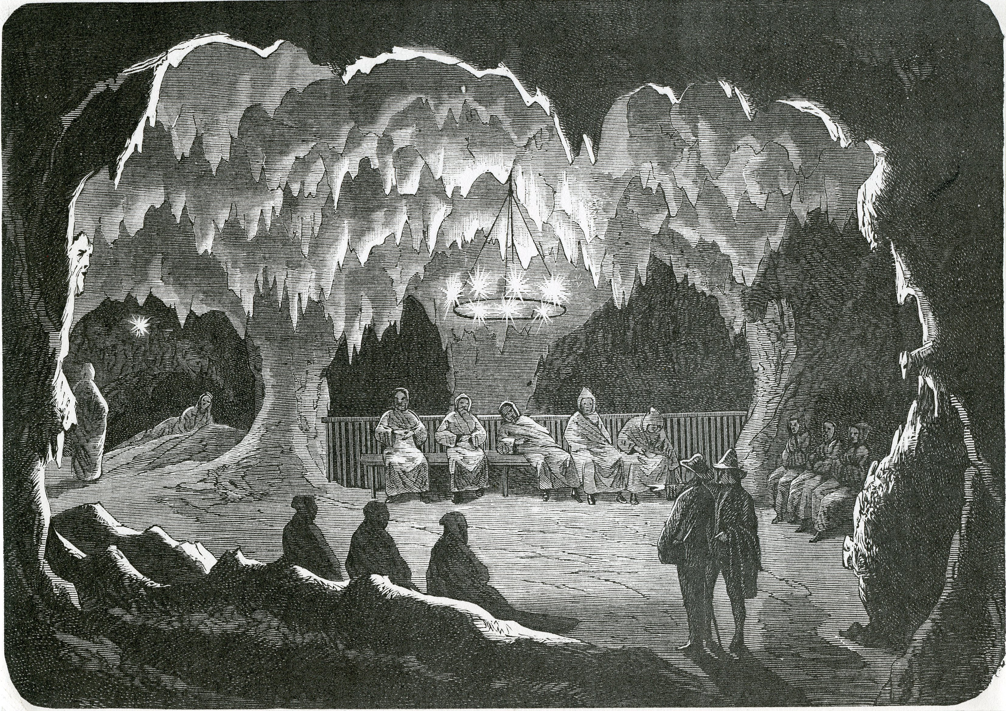 Health bath in Italy